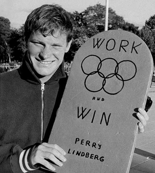 Per-Ola Lindberg at the Tokyo Olympics